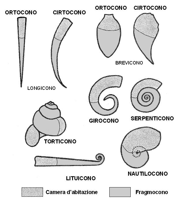 types of coiling of nautiloids shell; text in italian